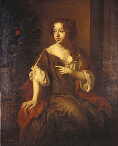 Lady Elizabeth Percy, Countess of Ogle (1667-1722)